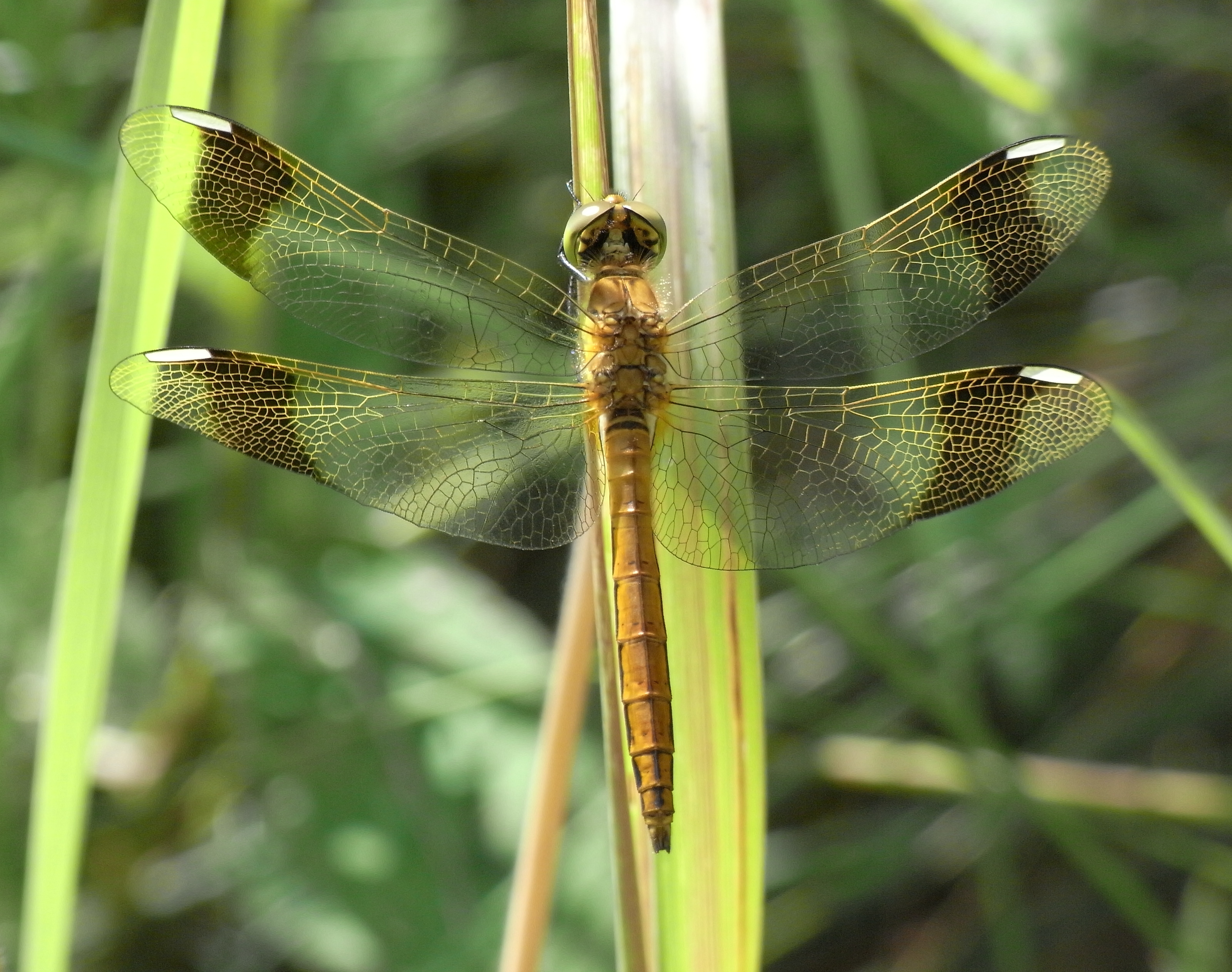 Male Banded Darter (Sympetrum pedemontanum) near Hamburg, Germany.